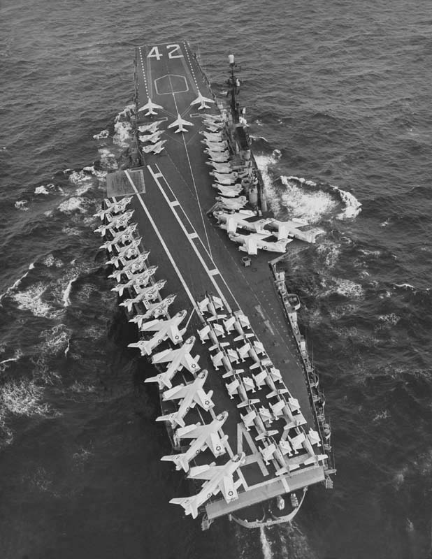 The U.S. Navy aircraft carrier USS Franklin D. Roosevelt (CVA-42) underway in the Mediterranean Sea, in early 1959. Franklin D. Roosevelt, with assigned Carrier Air Group 1 (CVG-1), was deployed to the Mediterranean Sea from 13 February to 28 August 1959.